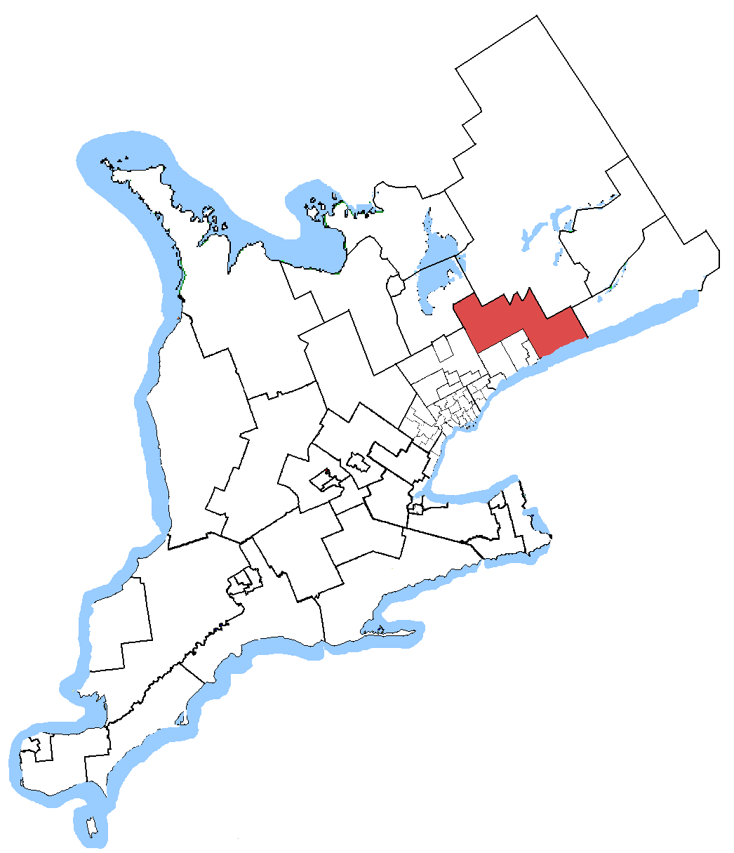 Map of the Durham electoral district. Based on Earl Andrew's maps, created by SimonP.